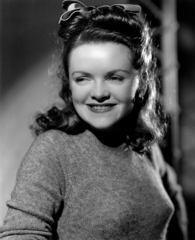 Photo of actress Pert Kelton.